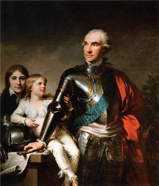 Portrait of the Count Stanislas Felix Potocki (1745-1805) and his two sons Felix-Georg (1776-1810) and Stanislas (1782-1831)